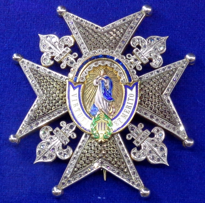 Order of Charles III, star with diamonds, 1936-1960. Spain. The exhibition of the Tallinn Museum of Orders of Knighthood, Estonia.